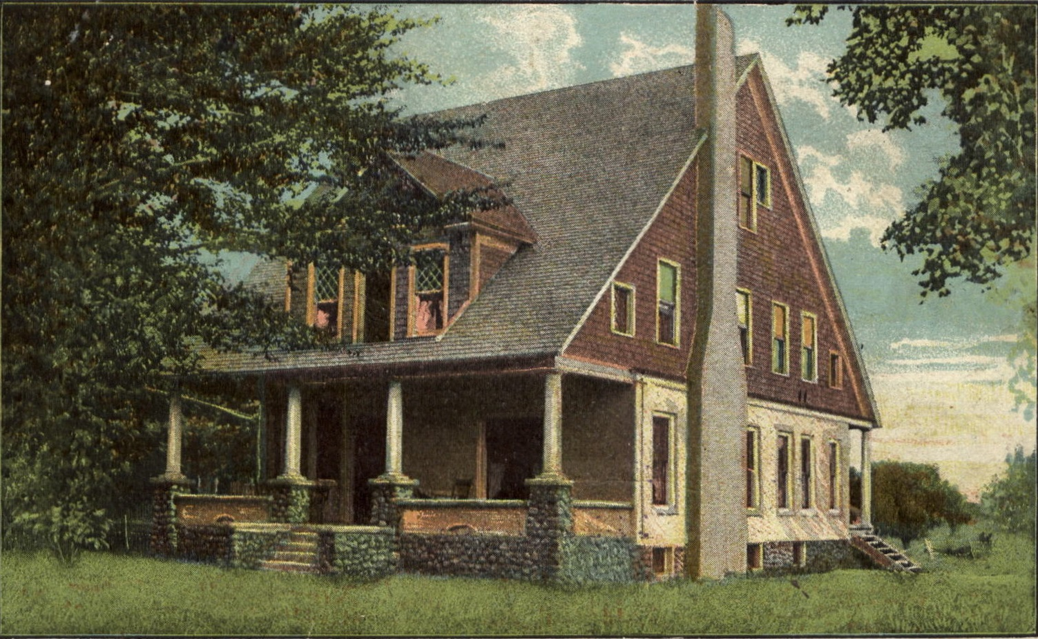 WN Kedzie house, Richland MI, c 1907 - lit with acetylene